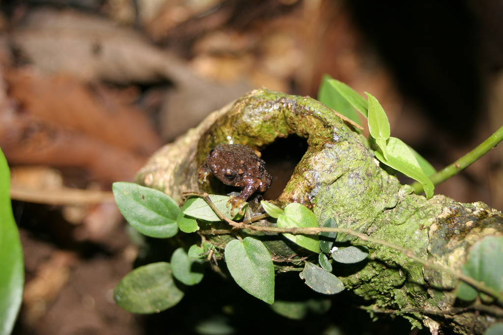 Bornean Tree-hole Frog (Metaphrynella sundana). Male tree-hole frogs of Borneo use their watery dens in tree-holes like pipe organs to amplify their calls and proclaim their sexiness far and wide. This species is endemic to Borneo. Family: MICROHYLIDAE Species: Metaphrynella sundana Size (snout to vent) : Female 2.5 cm, Male 2.3 cm